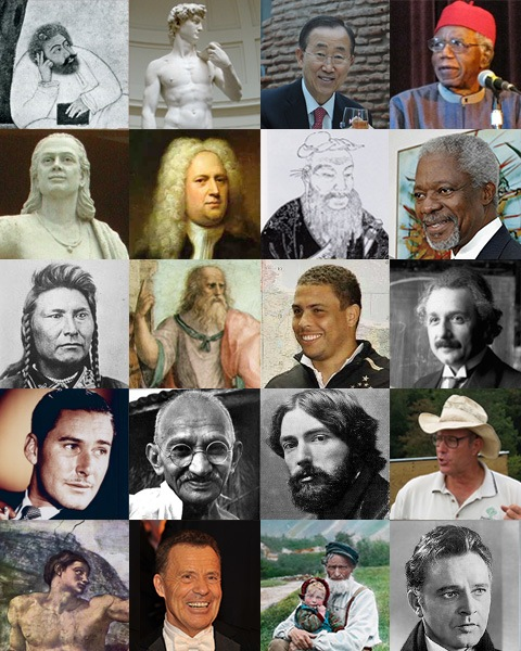 Adaptation of: by adding two images: Richard Burton - and Augustus John